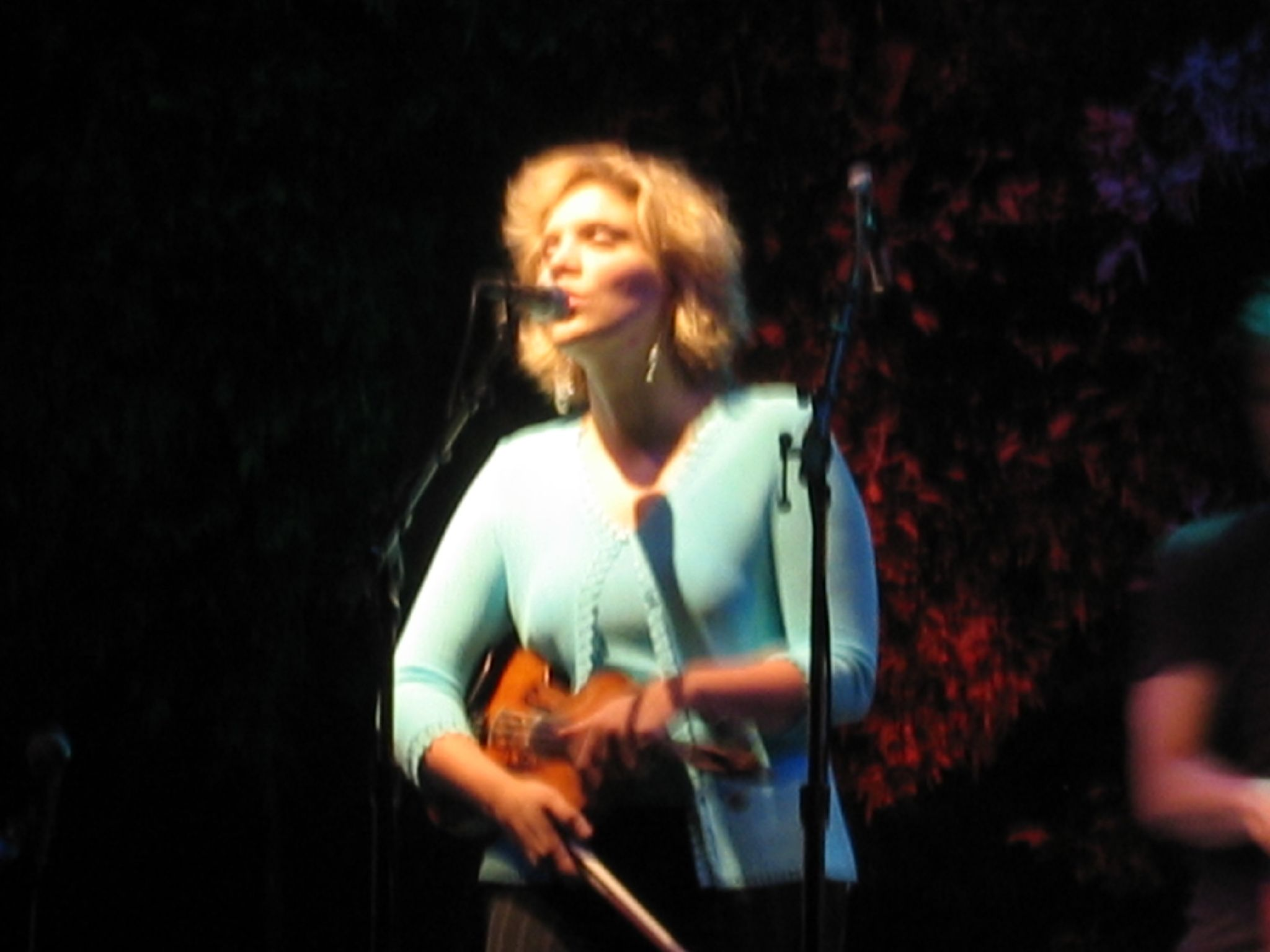 Alison Krauss performing at the bluegrass music festival Rockygrass.